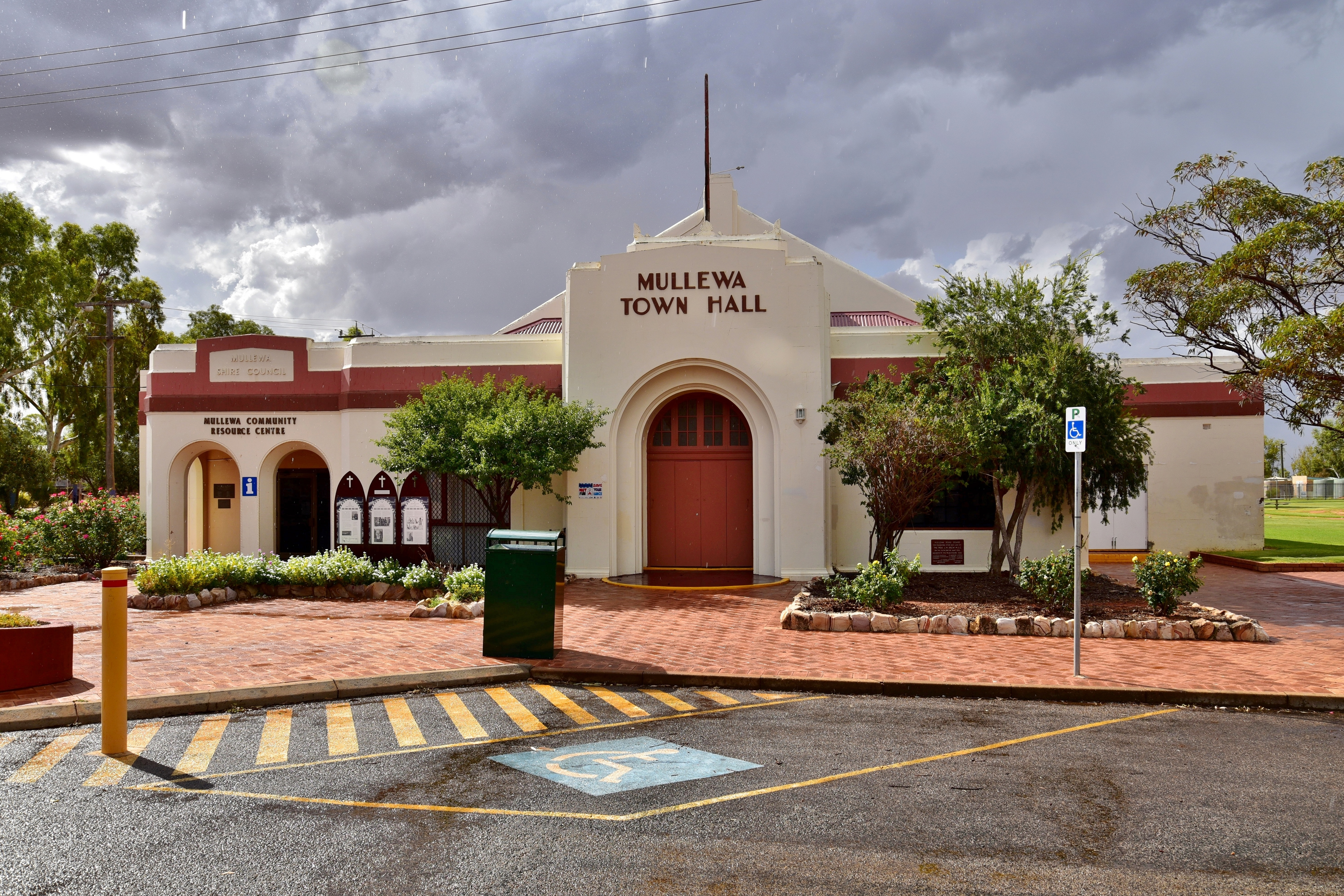 View of the Mullewa Town Hall, Mullewa, Western Australia, during a sun shower